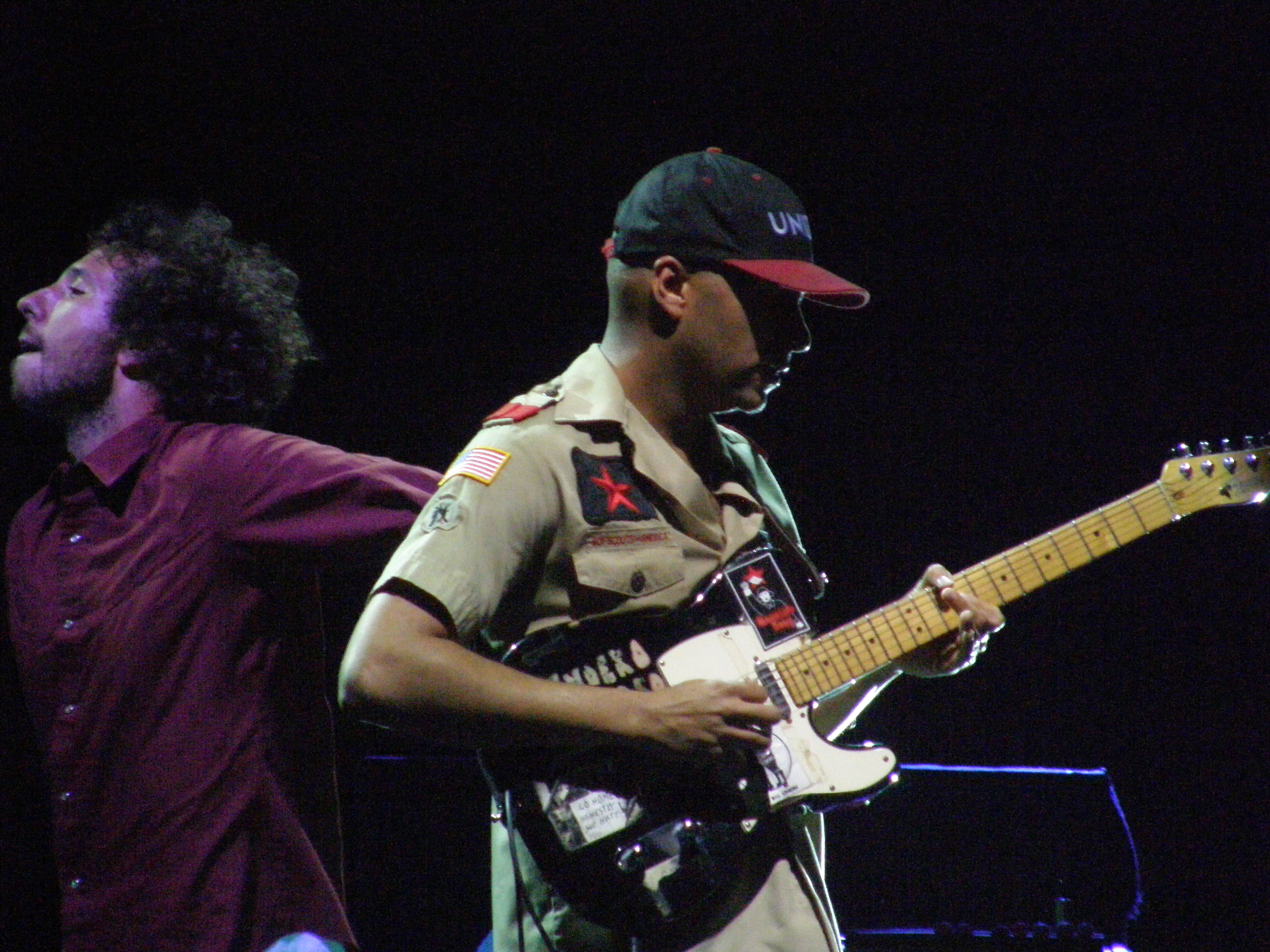 Rage Against The Machine plaing at Vegoose festival, Sam Boyd Stadium, 2007.